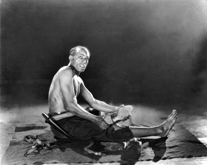 Charles S. Gilpin in The Emperor Jones Caption reads as follows: The "Emperor" removes his shoes to facilitate his flight through the jungle